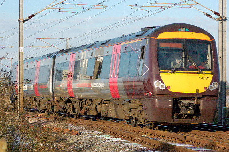 CrossCountry 170111 passes the junction at Great Shelford.